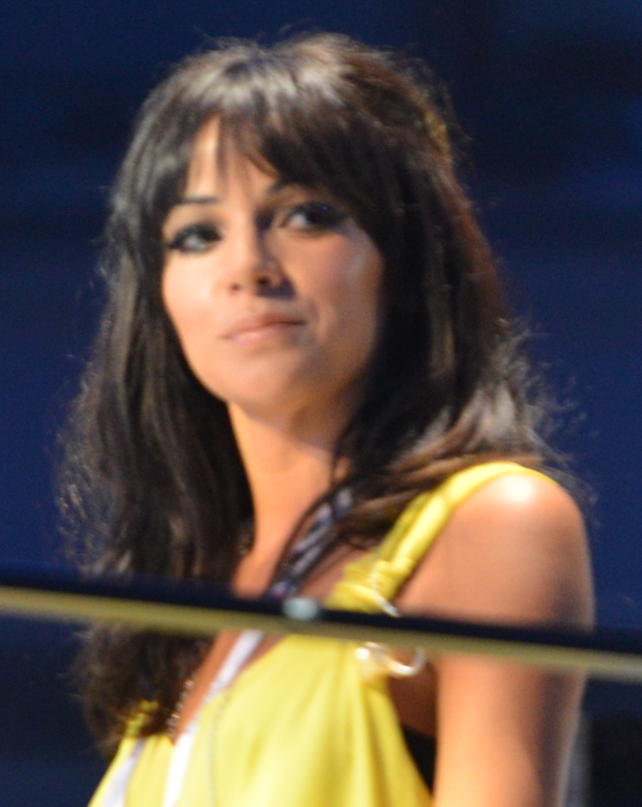 El Sueño de Morfeo entering the Malmö Arena in the opening act in the first dress rehearsal for the Eurovision Song Contest 2013.